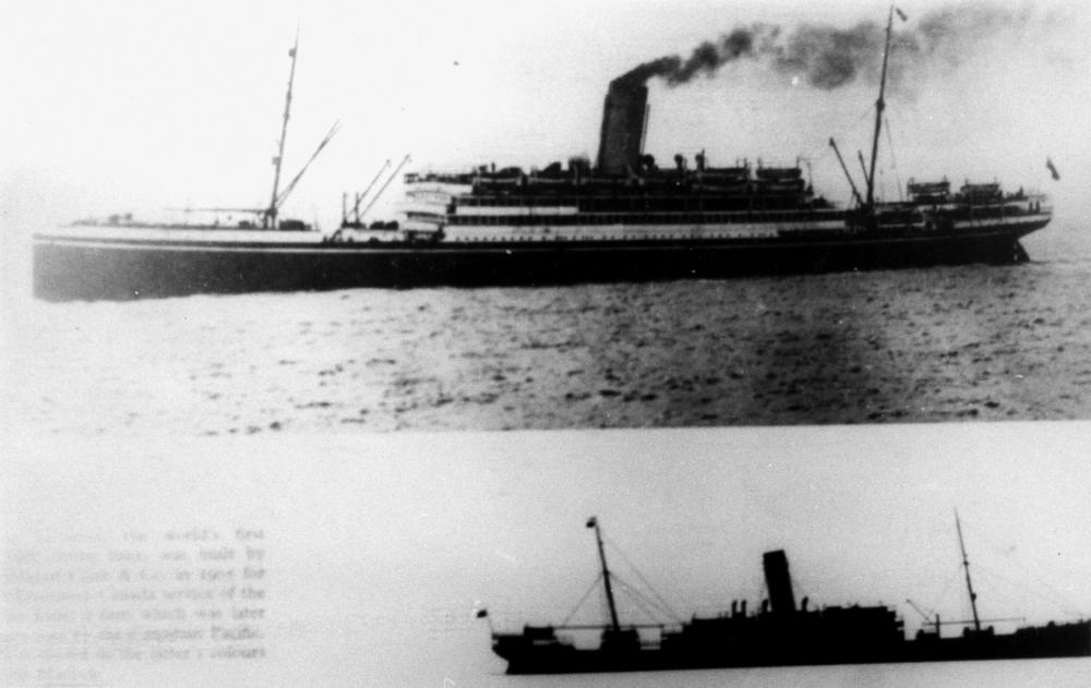 SS Marloch, formerly RMS Victorian. Built by Workman, Clark & Co 1905. 10,635 tons. Speed 18 knots. 520 X 60.4 X 29.6. 1914 taken over as Armed Merchant cruiser. Renamed in 1915 and broken up in 1929. (From description supplied with photograph.)